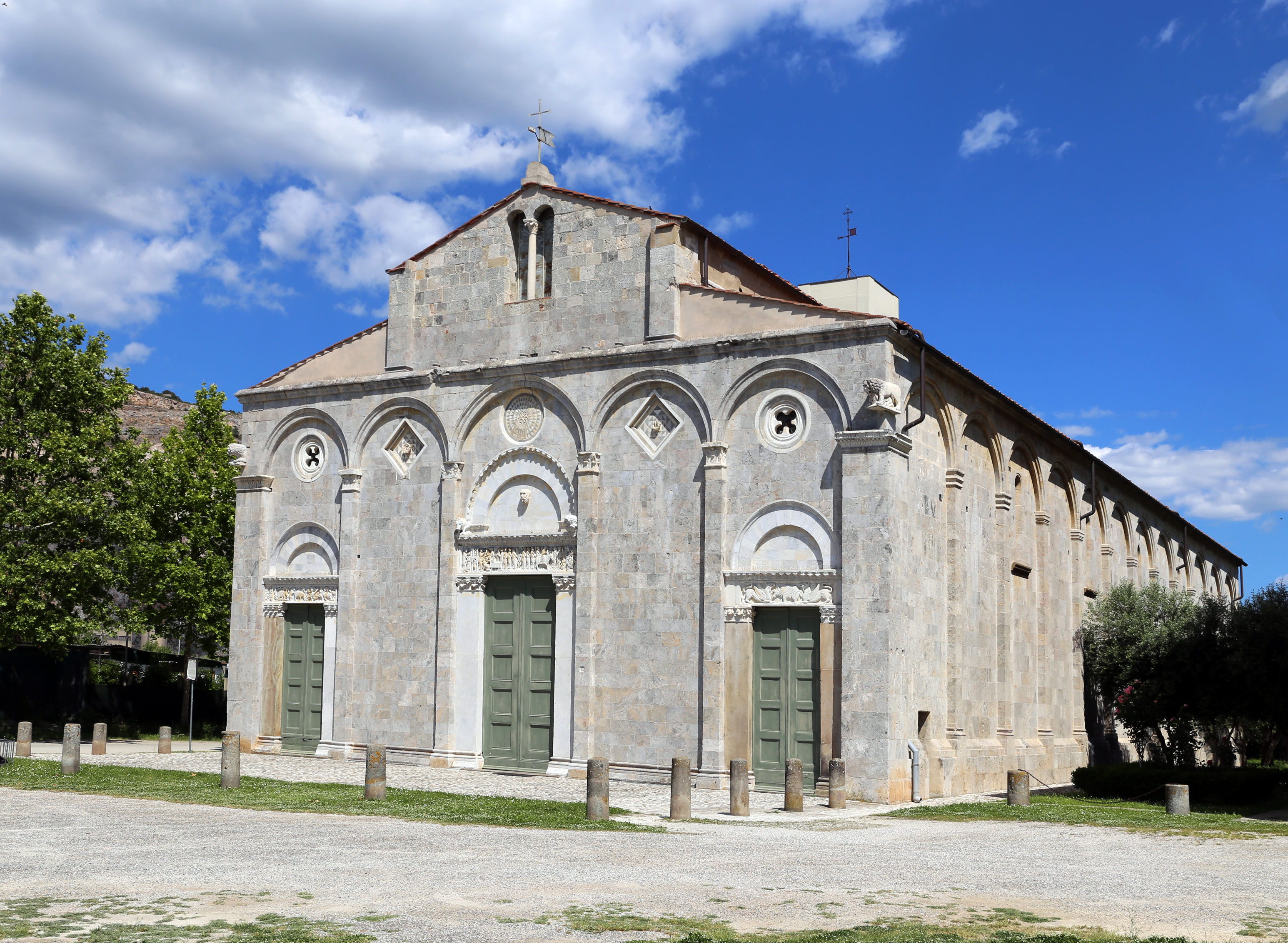 Santi Ippolito e Cassiano (San Casciano)